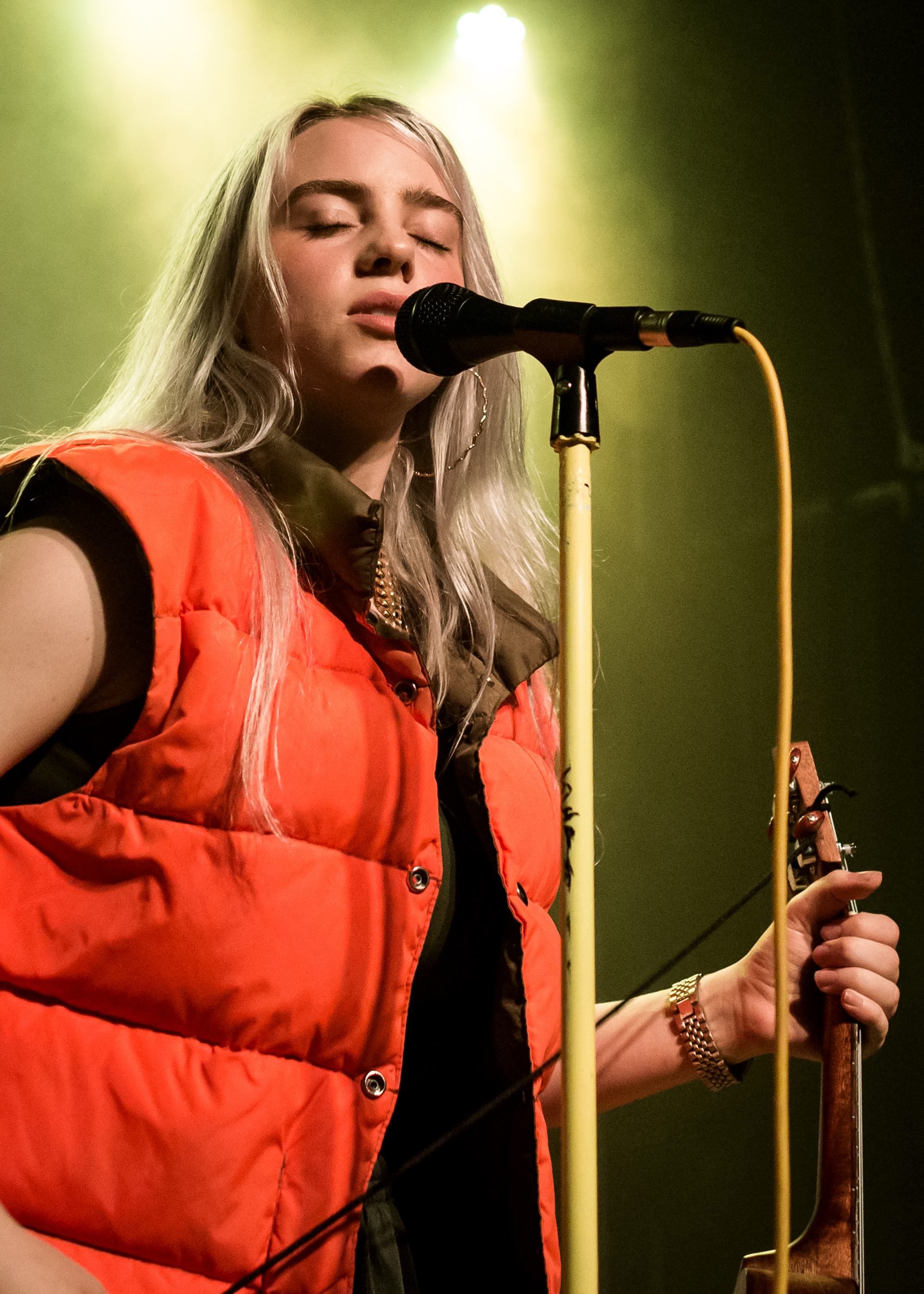 Billie Eilish performing live at The Hi Hat in Highland Park, Los Angeles, California, on Thursday, August 10, 2017.